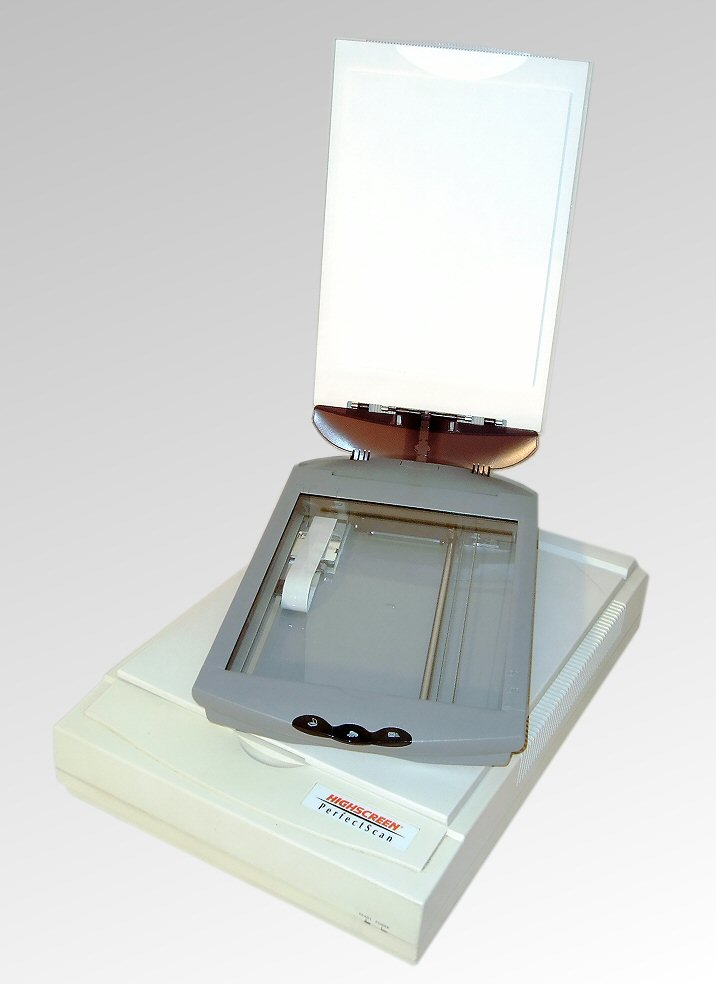 The picture shows two imaging scanners: on top: Canon CanoScan 3000 (2003) below: Highscreen PerfectScan (1996)